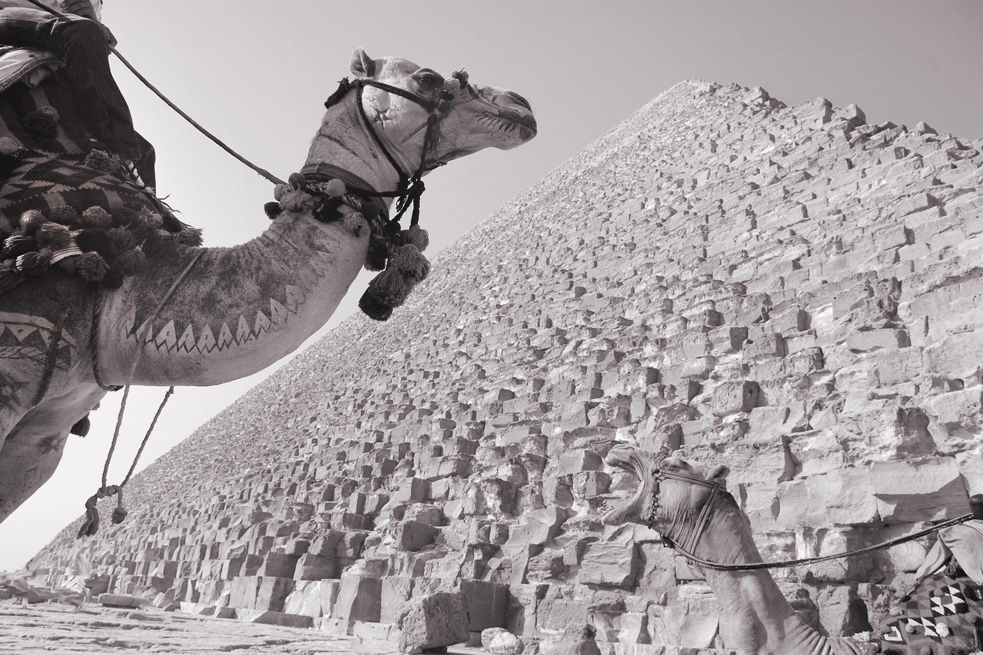 Domesticated dromedary camels at the Great Pyramid of Giza, Giza, Egypt